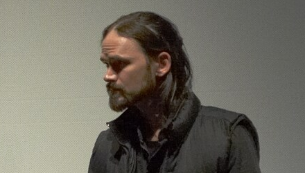 Jeremy Davies answer questions after the premiere screening of Rescue Dawn in Toronto